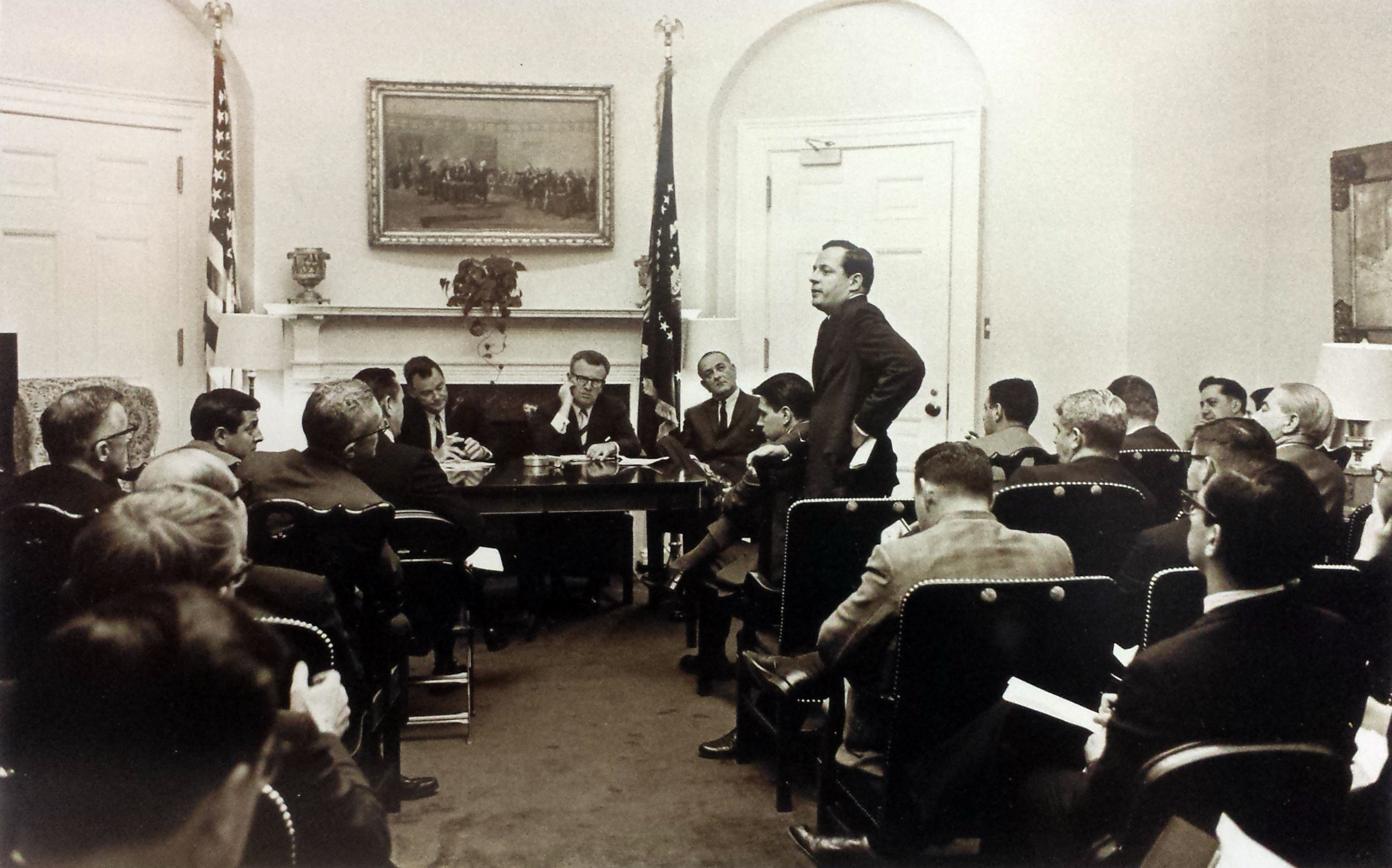 Photo of Dr. William Conrad Gibbons who was the Professional Staff Member of the Democratic Policy Committee and Assistant to the Majority Leader of the Senate, Senator Lyndon B. Johnson